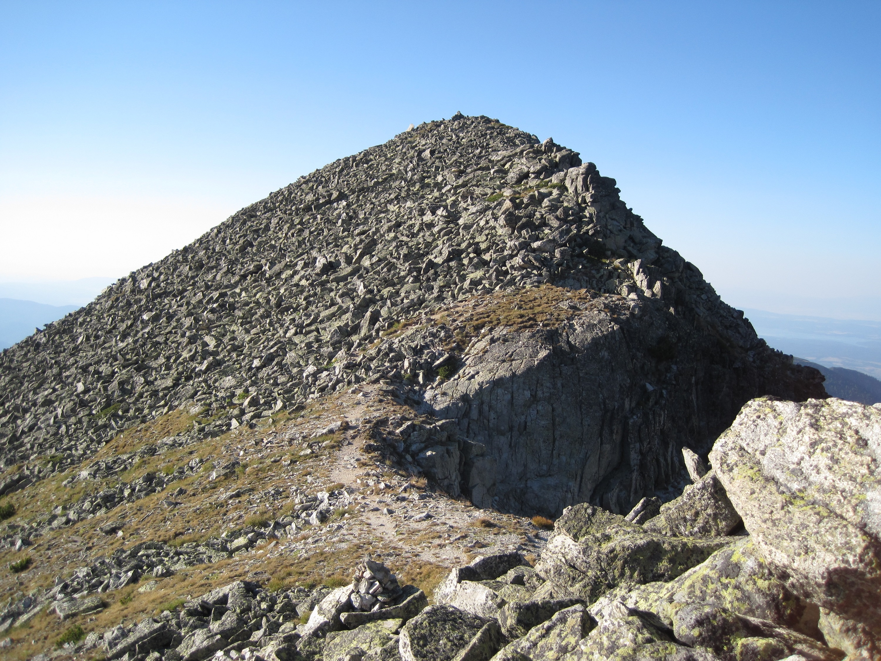 Bezimennia vrah (The Nameless Peak near Musala)